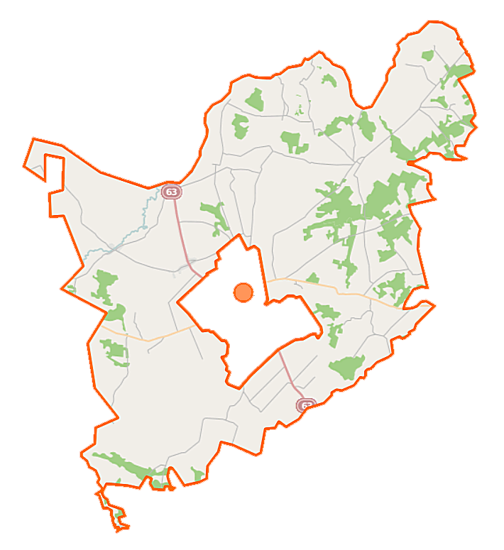 Map of Gmina Kolno, Podlaskie Voivodeship, Poland This map of Kolno (gmina wiejska w województwie podlaskim) was created from OpenStreetMap project data, collected by the community. This map may be incomplete, and may contain errors. Don't rely solely on it for navigation. Border coordinates53.545621.7440←↕→22.133353.2923